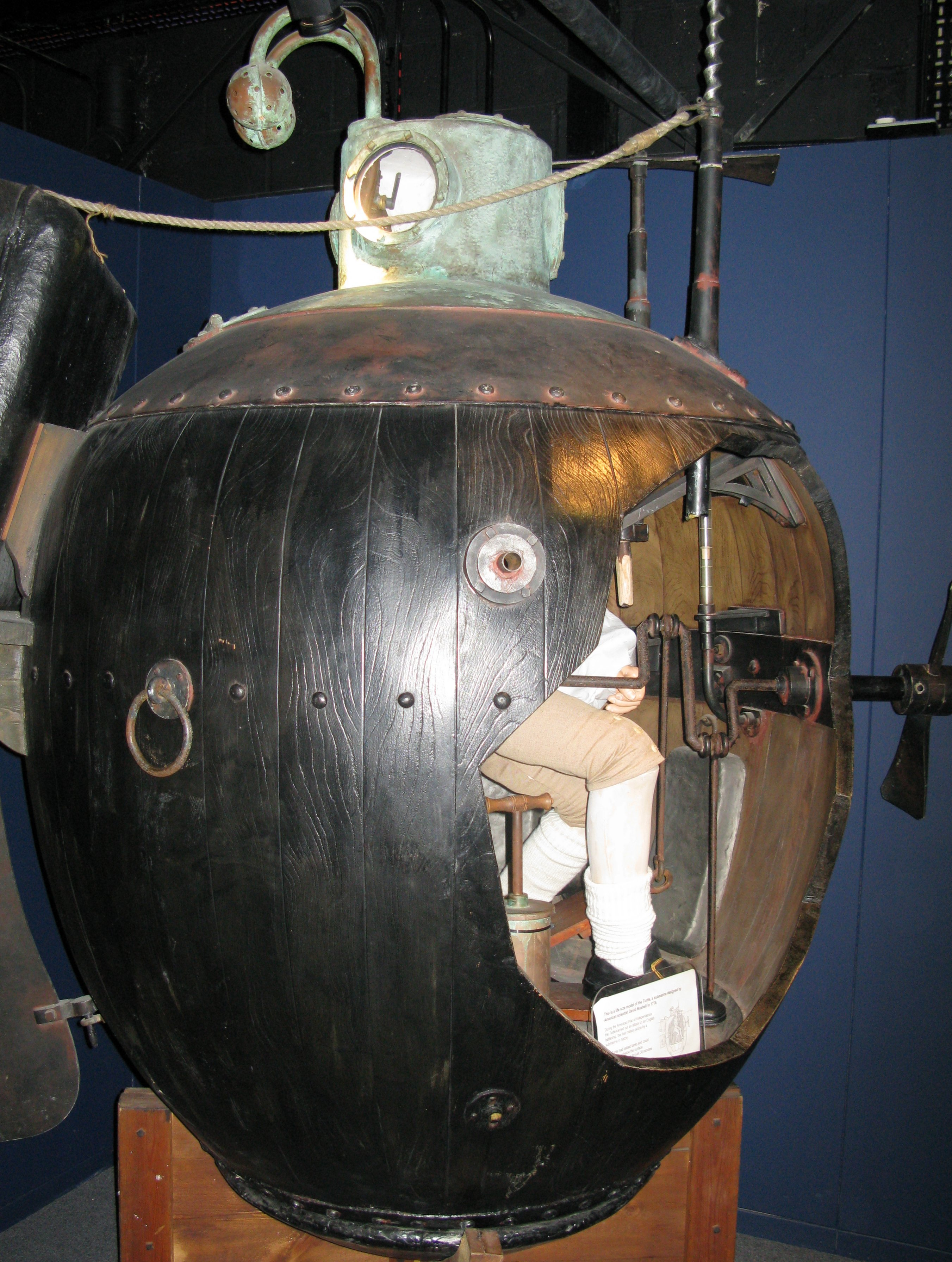 A photo of a full-size model of the Turtle submarine on display at the Royal Navy submarine museum